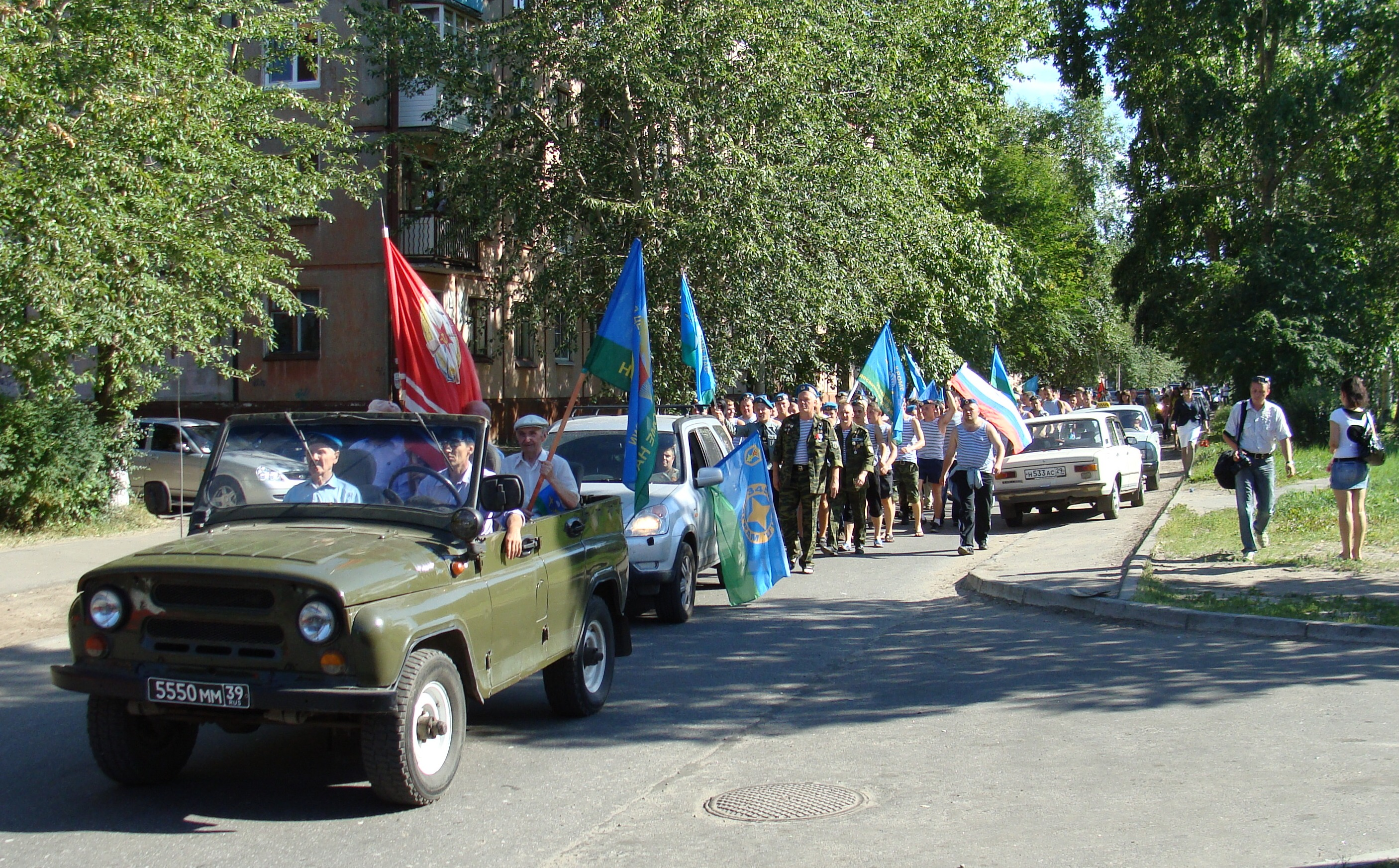 Airborne forces day in Severodvinsk (2010-08-02)